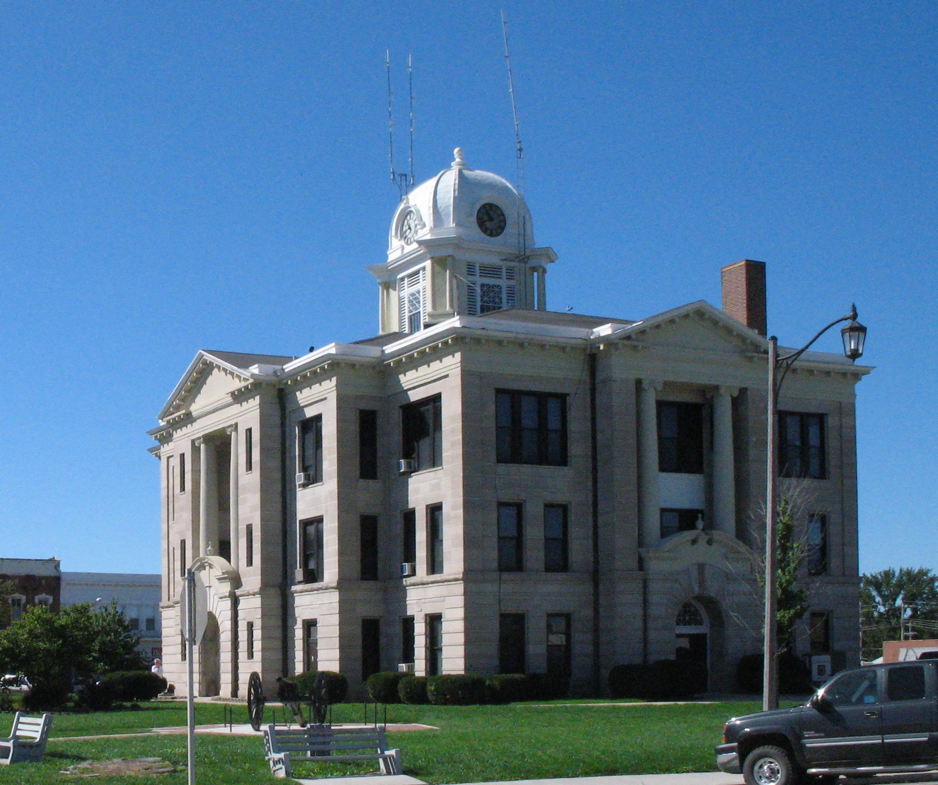 Daviess County, Missouri courthouse in Gallatin, Missouri in September, 2007.